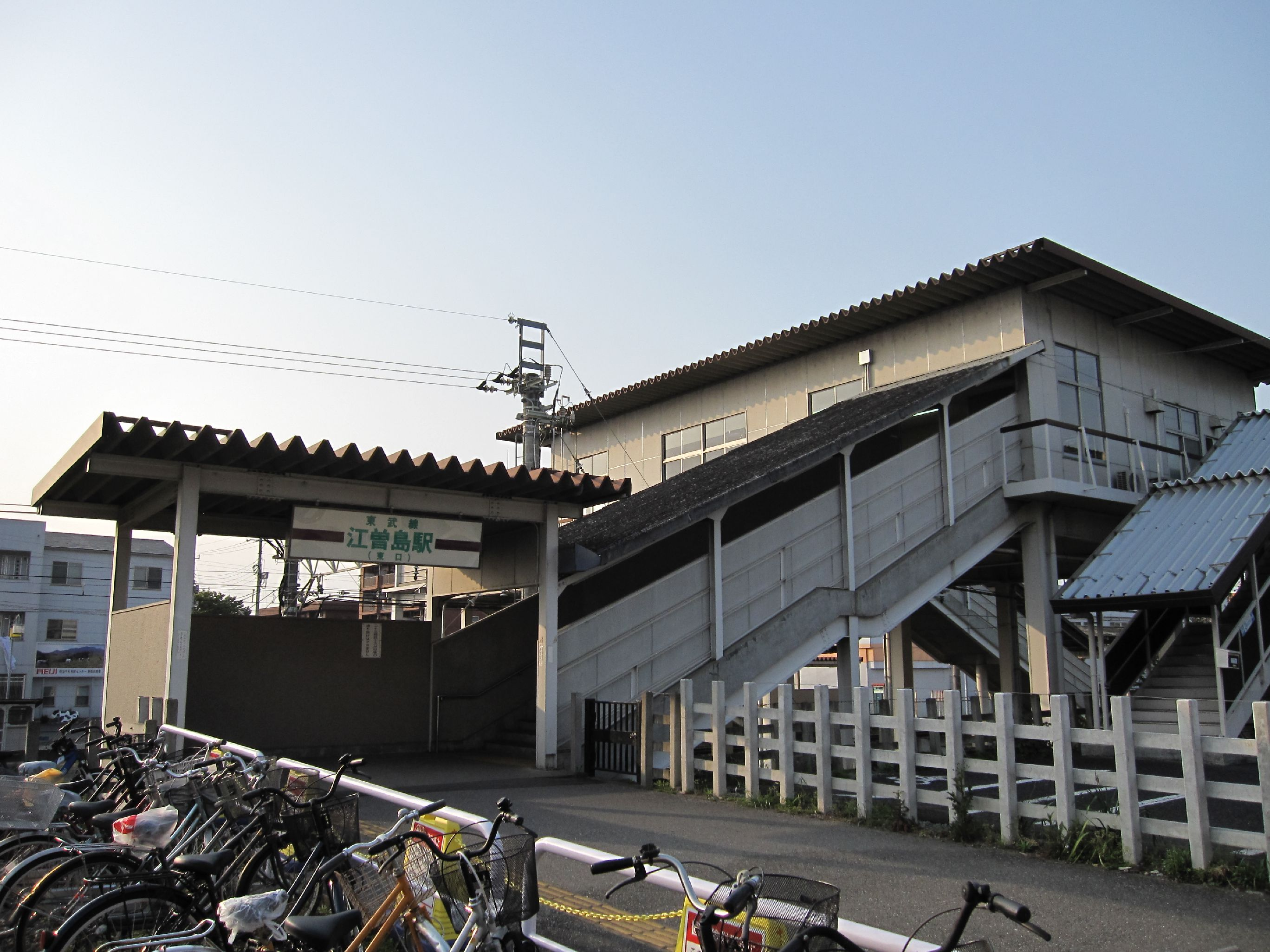 Esojima Station in Utsunomiya, Tochigi Prefecture, Japan.